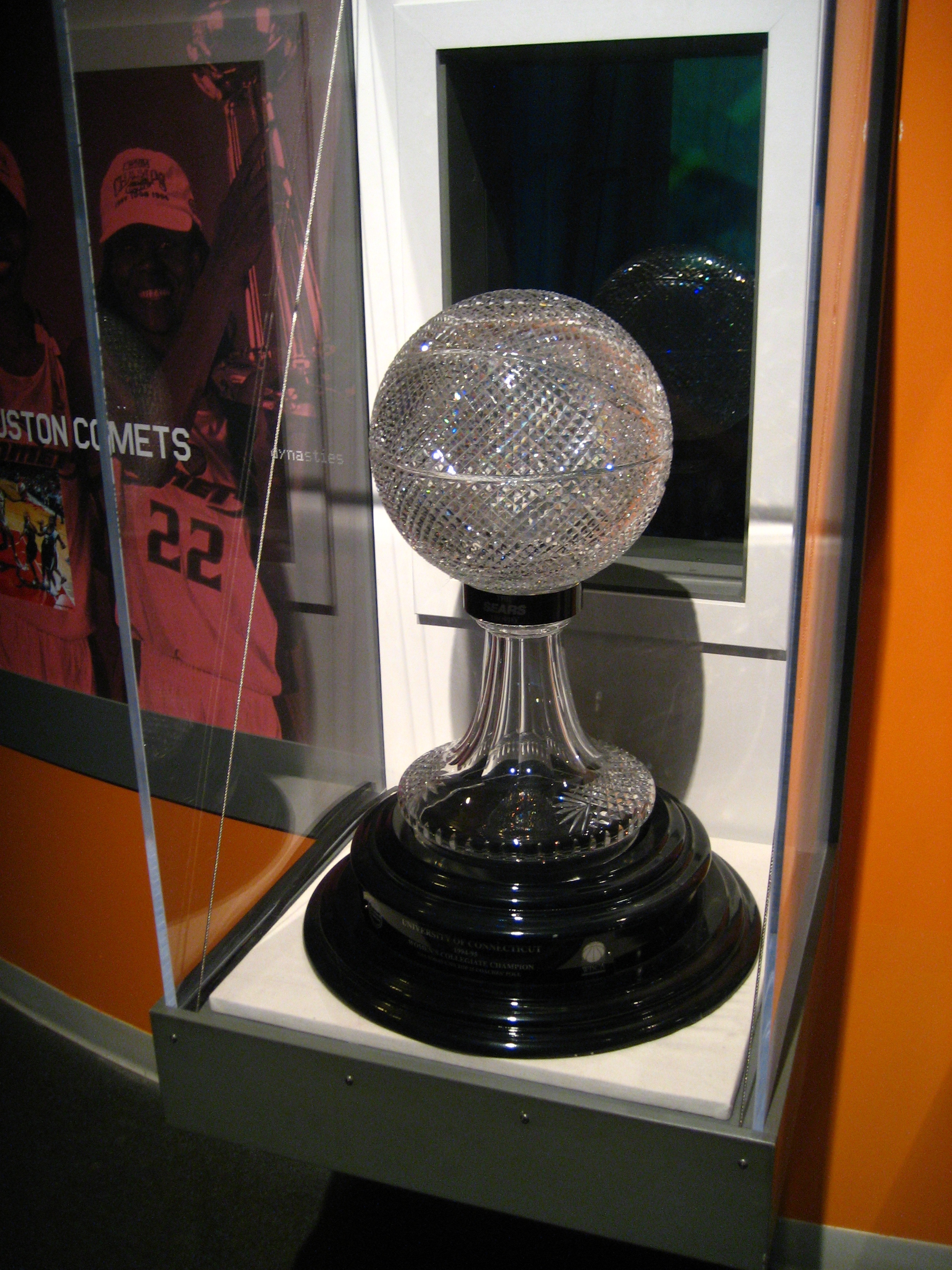 National Association of Basketball Coaches NCAA Championship Trophy